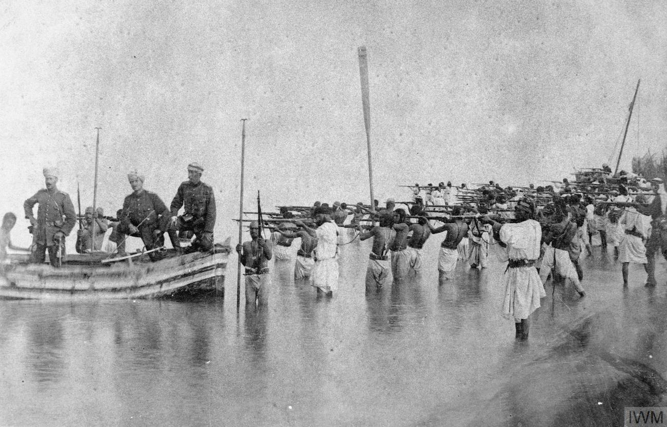 T E Lawrence and the Arab Revolt 1916 - 1918 A scene (probably a set piece for cinema representation), showing soldiers in the water taking aim with rifles, at Wejh, a port on the Red Sea coast north of Yenbo.